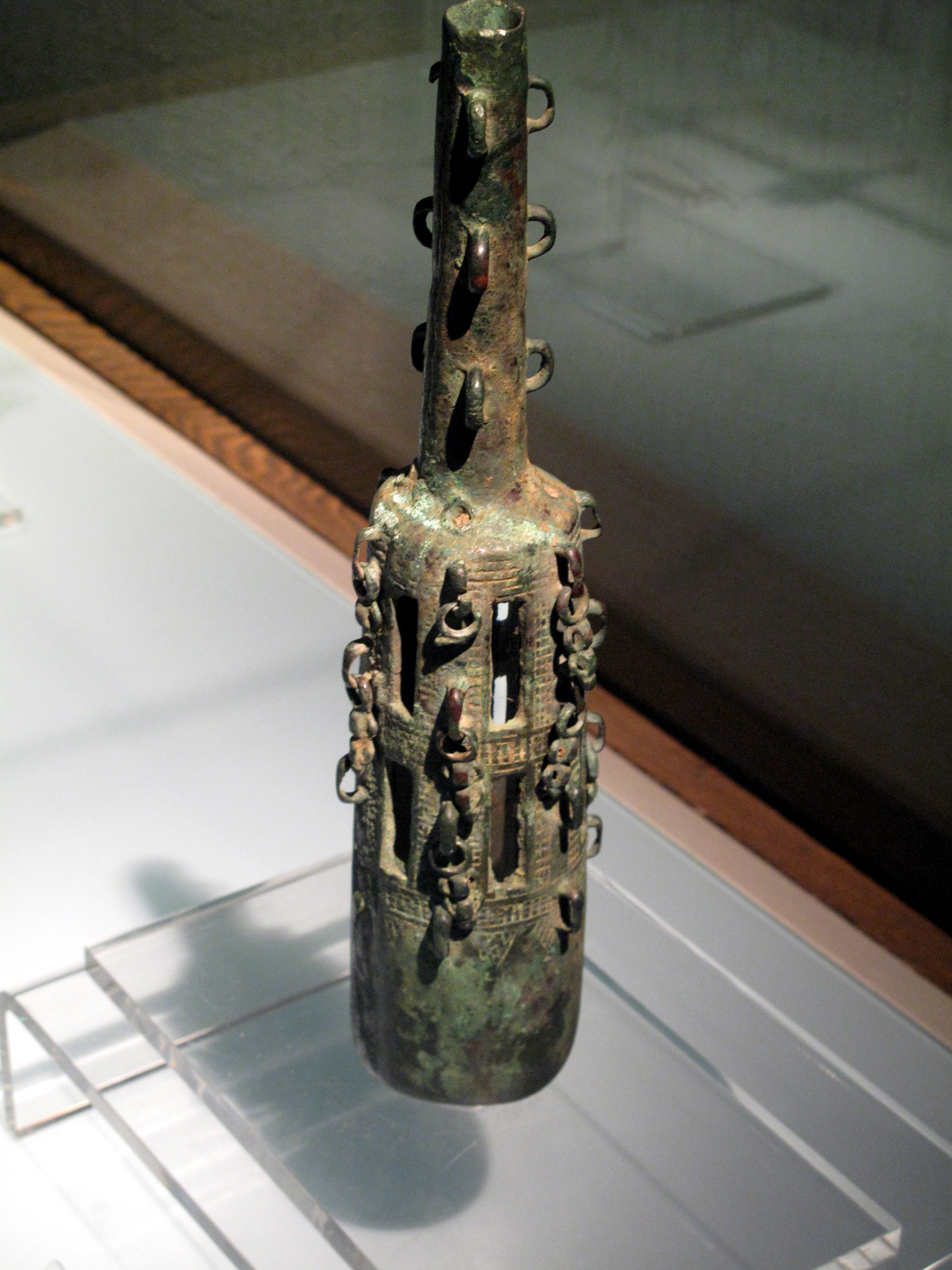 "Dancing Bell." Shang Dynasty, 16th - 11th century BC. Shanxi Museum This is a clapperless bronze bell used for dancing. Its sound was made by chains, attached to the handle loops, that struck its body when shaken.